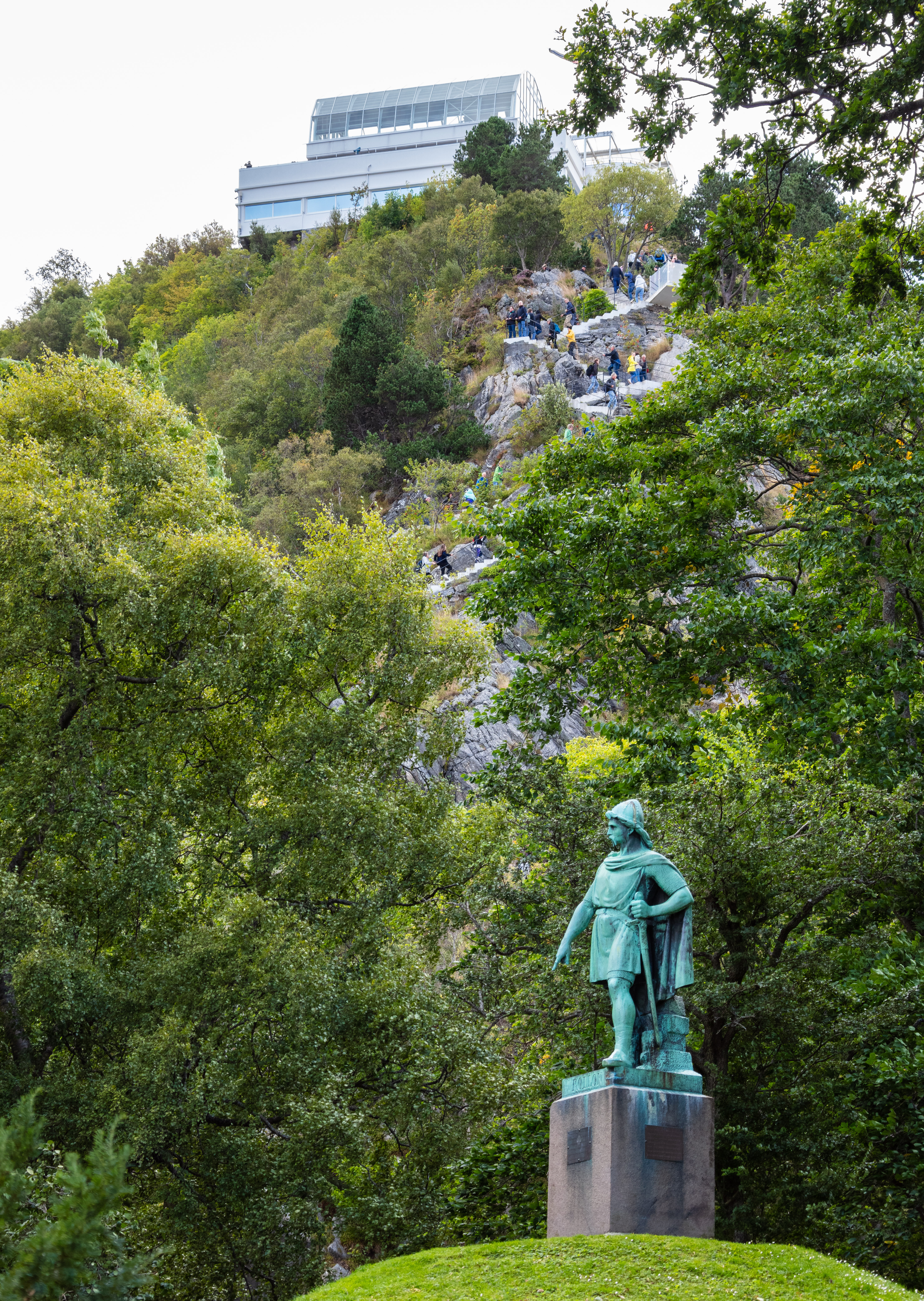 Ascension to Aksla, Ålesund, Norway